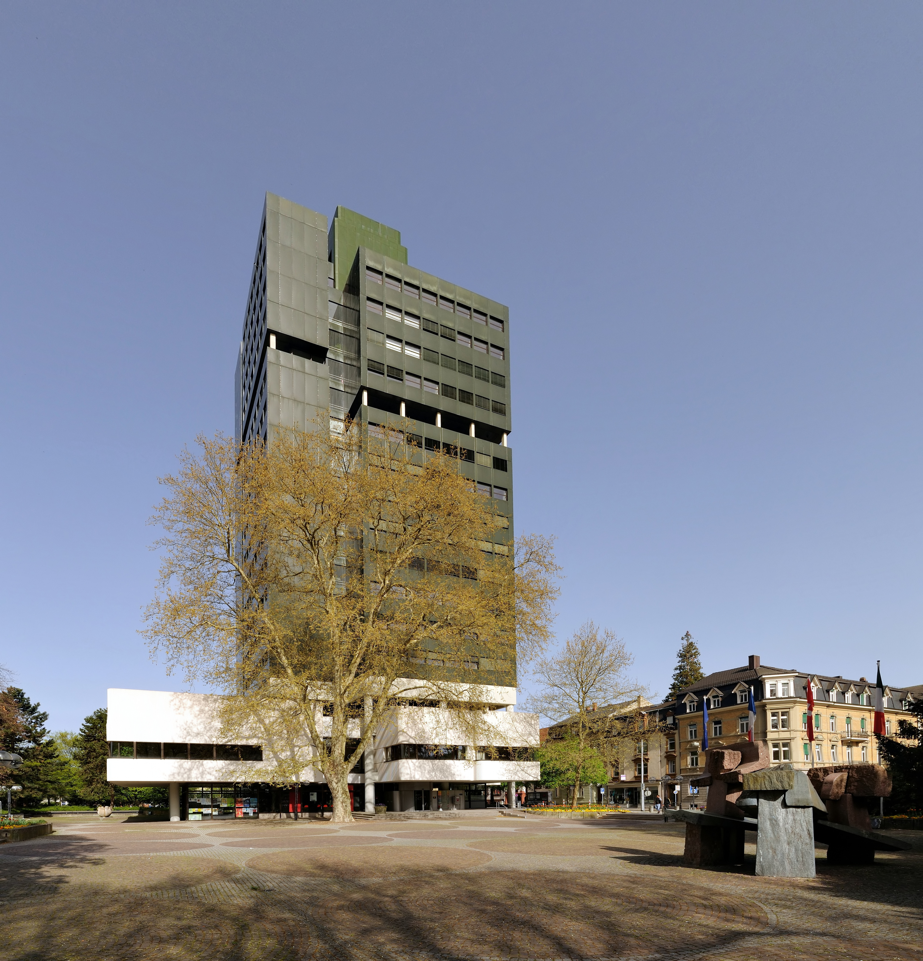 Lörrach: (New) City Hall with square, view from east, on the right visible sculpture Triade from sculptor Giancarlo Sangregorios